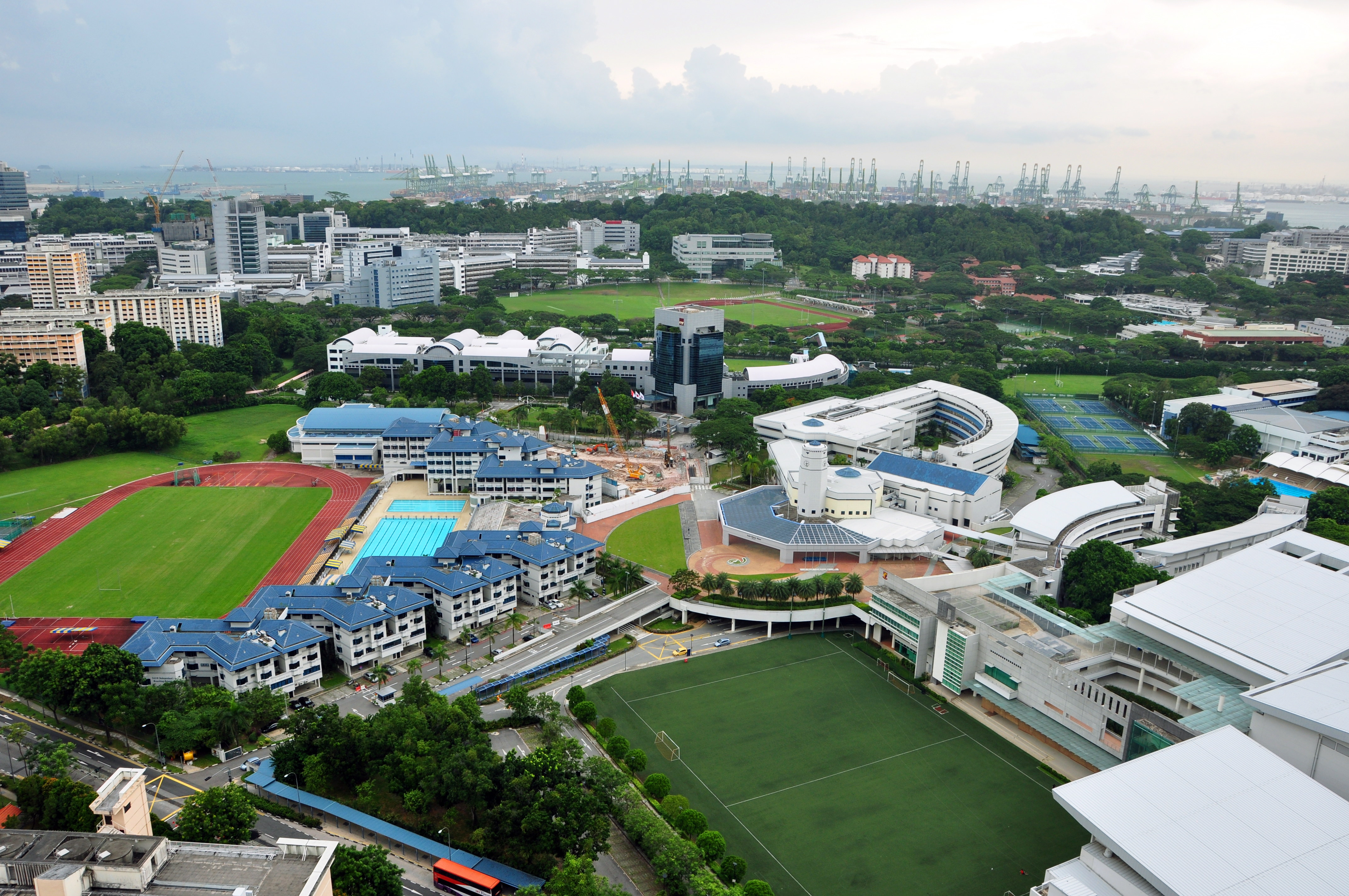 Anglo Chinese School Independent Panorama 2010 Dover